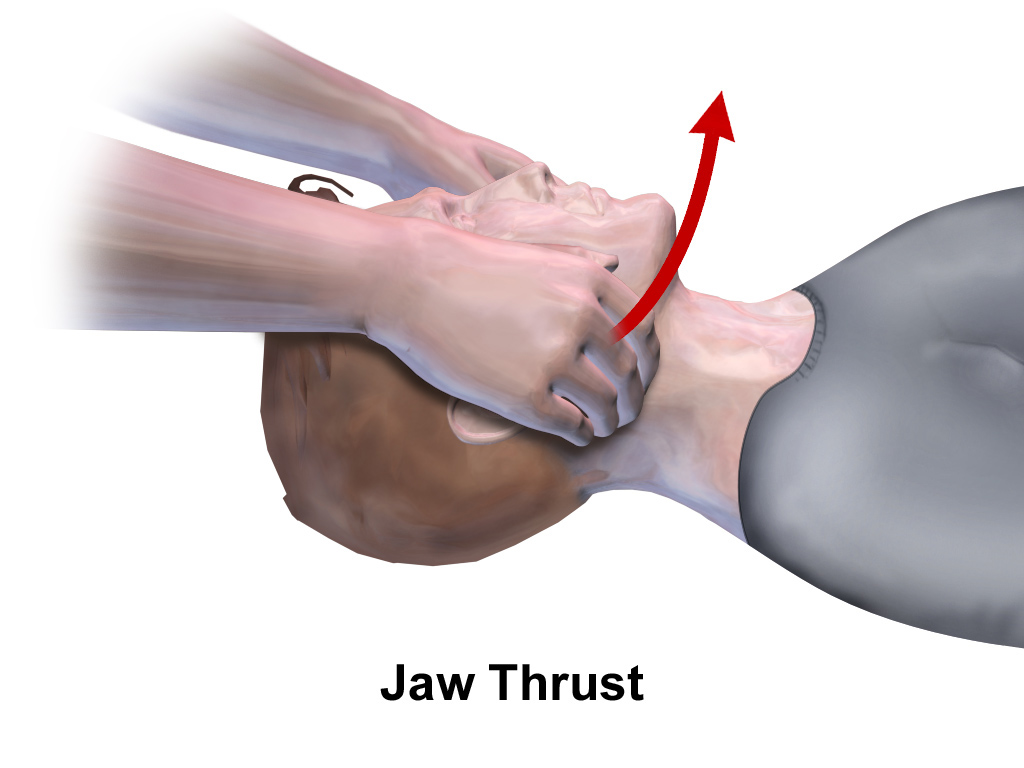 Illustration of the jaw-thrust Maneuver.